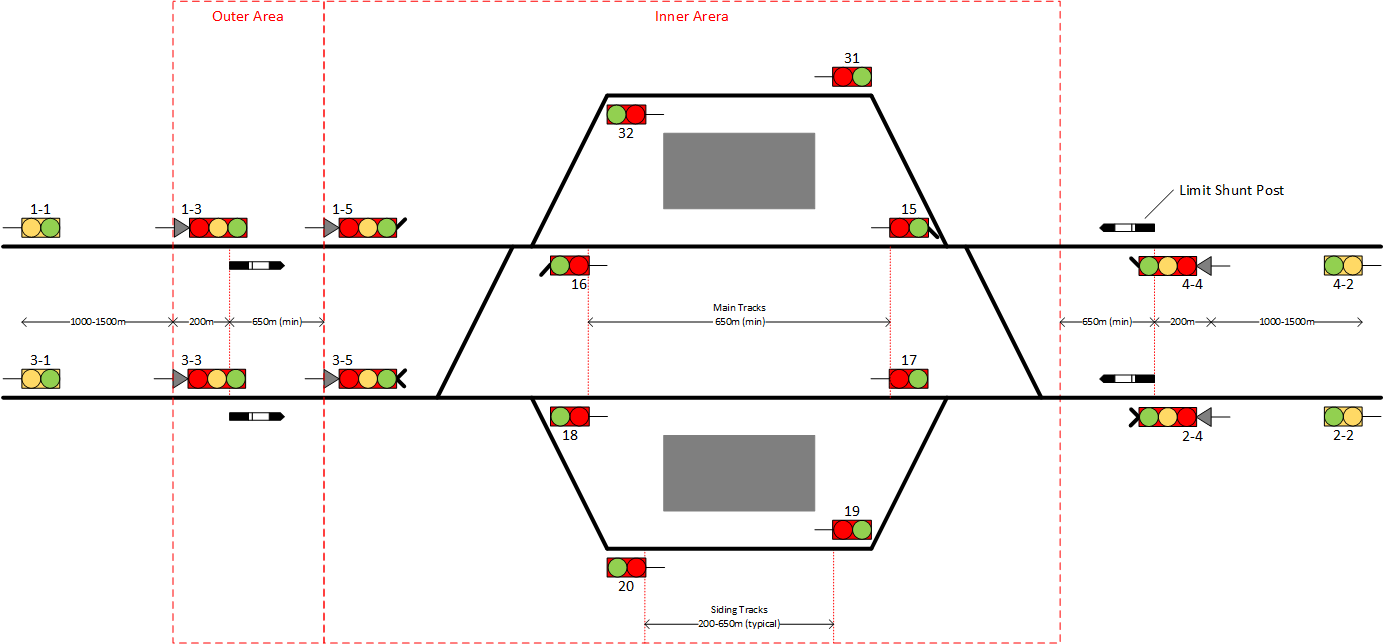 SRT Station Signaling Layout 1